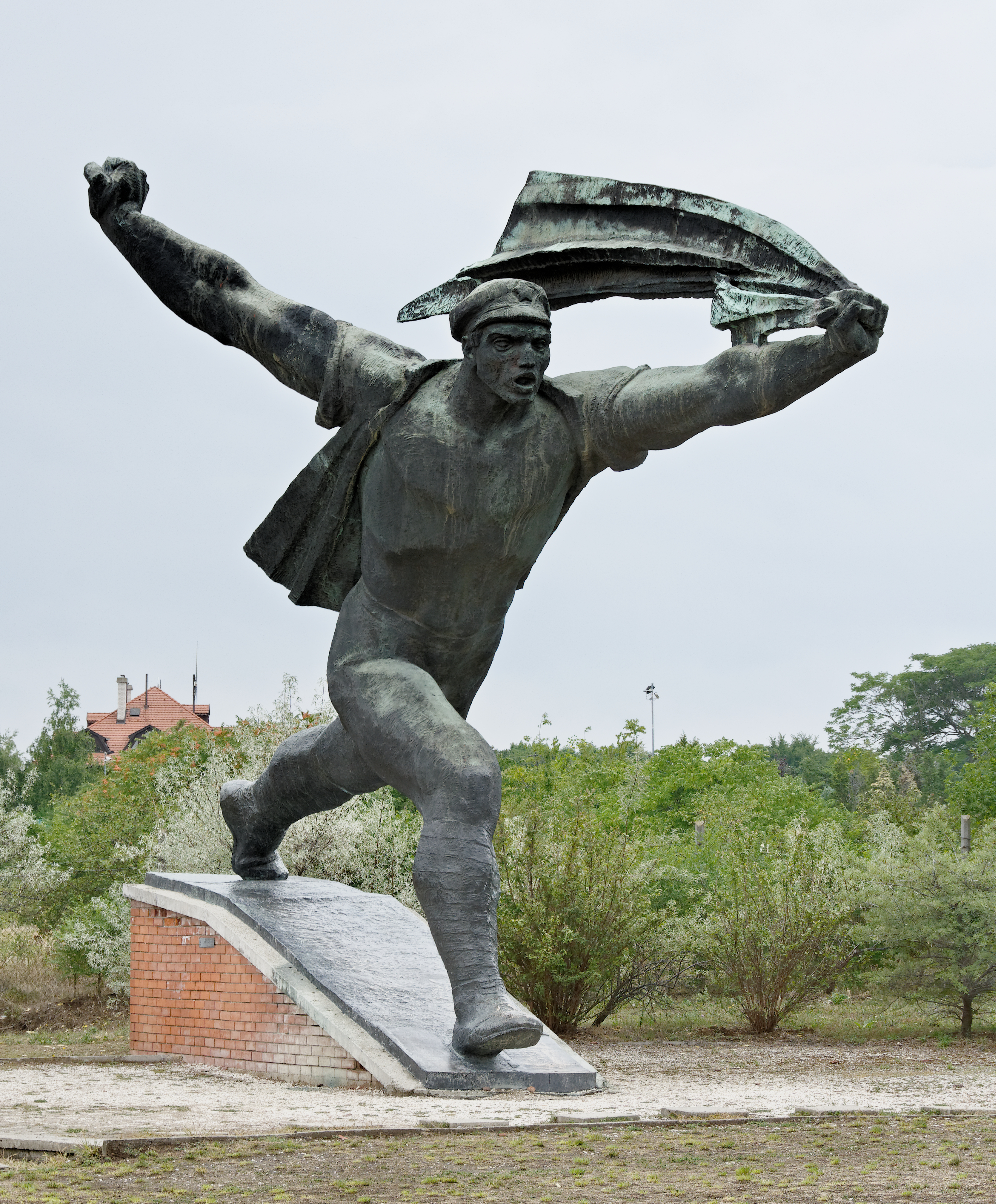 The Republic of Councils Monument is a giant charging sailor based on a 1919 revolutionary poster. It was finished in 1969 by the artist Kiss István and stood opposite the big Lenin Statue at Dozsa-György-Boulevard, beside the Városliget city park. Today it belongs to the communist statues collection of the Memento Park.